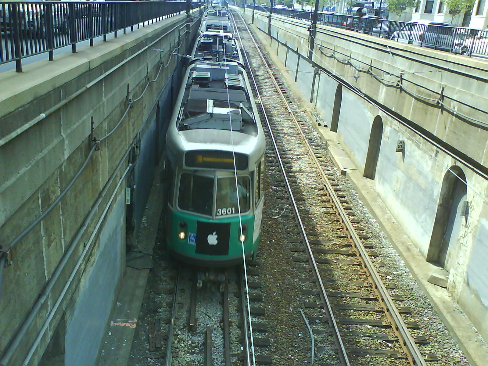 A tram on Boston's MBTA Green Line "E" Branch enters the Huntington Avenue Subway via the Northeastern Incline.